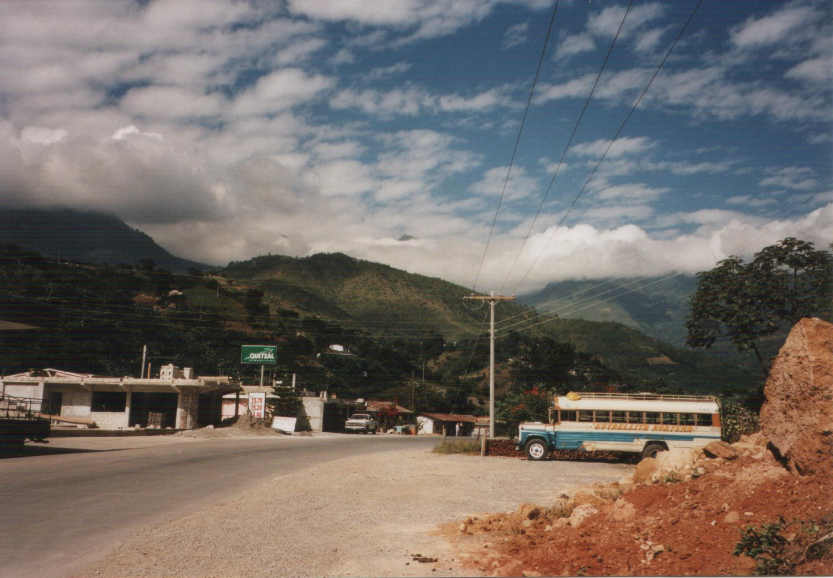 Gas station along the Panamerican Highway in Guatemala.